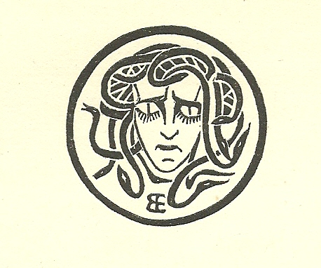 medusa-head used for Palladium-series (1920-1927) typography: Jan van Krimpen